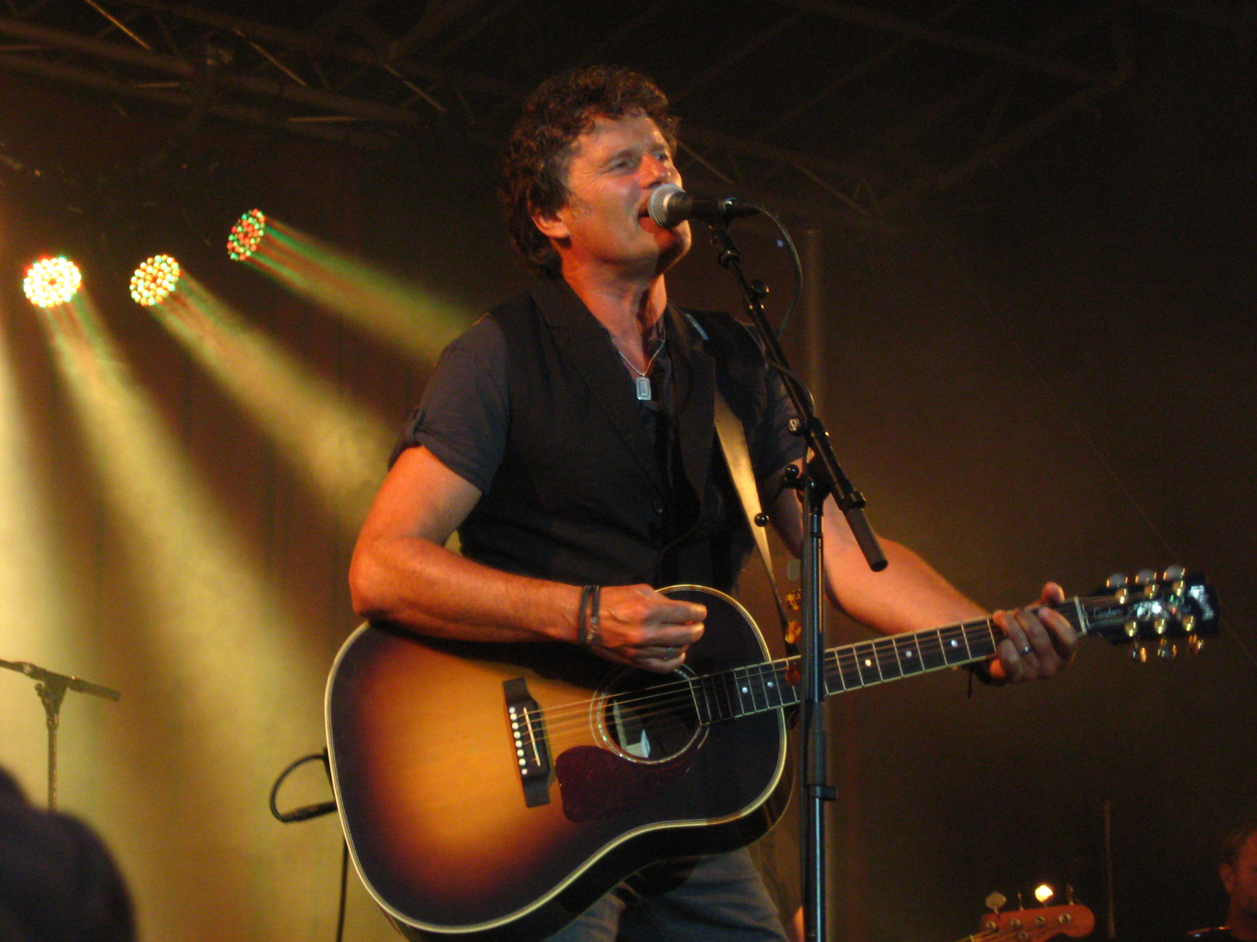 Danish singer Poul Krebs performing in Hirtshals, 2013